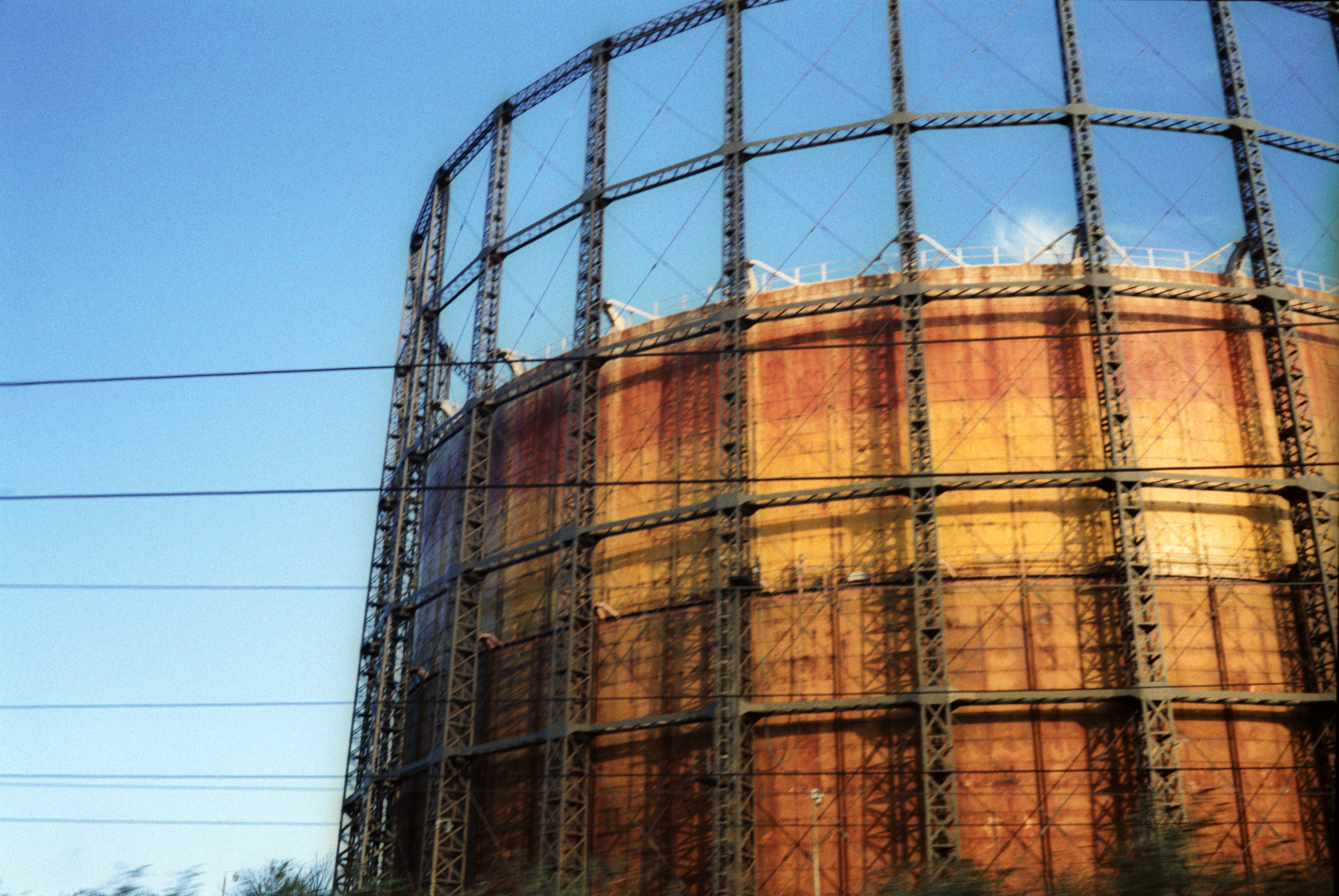 My morning train trip to London on 16 December last year continues, now in glorious cross-processed CT Precisa colour.